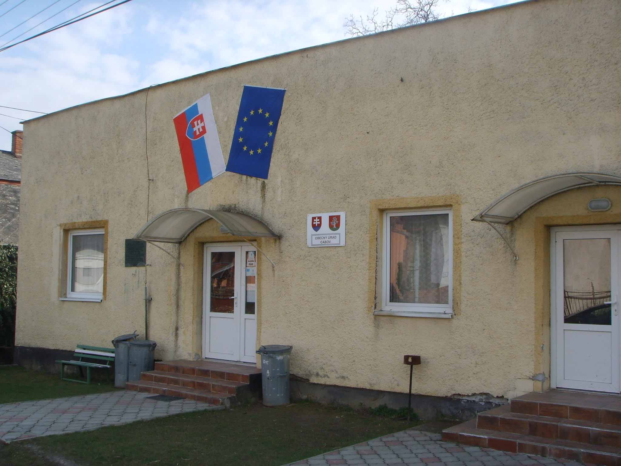 Cabov municipality office